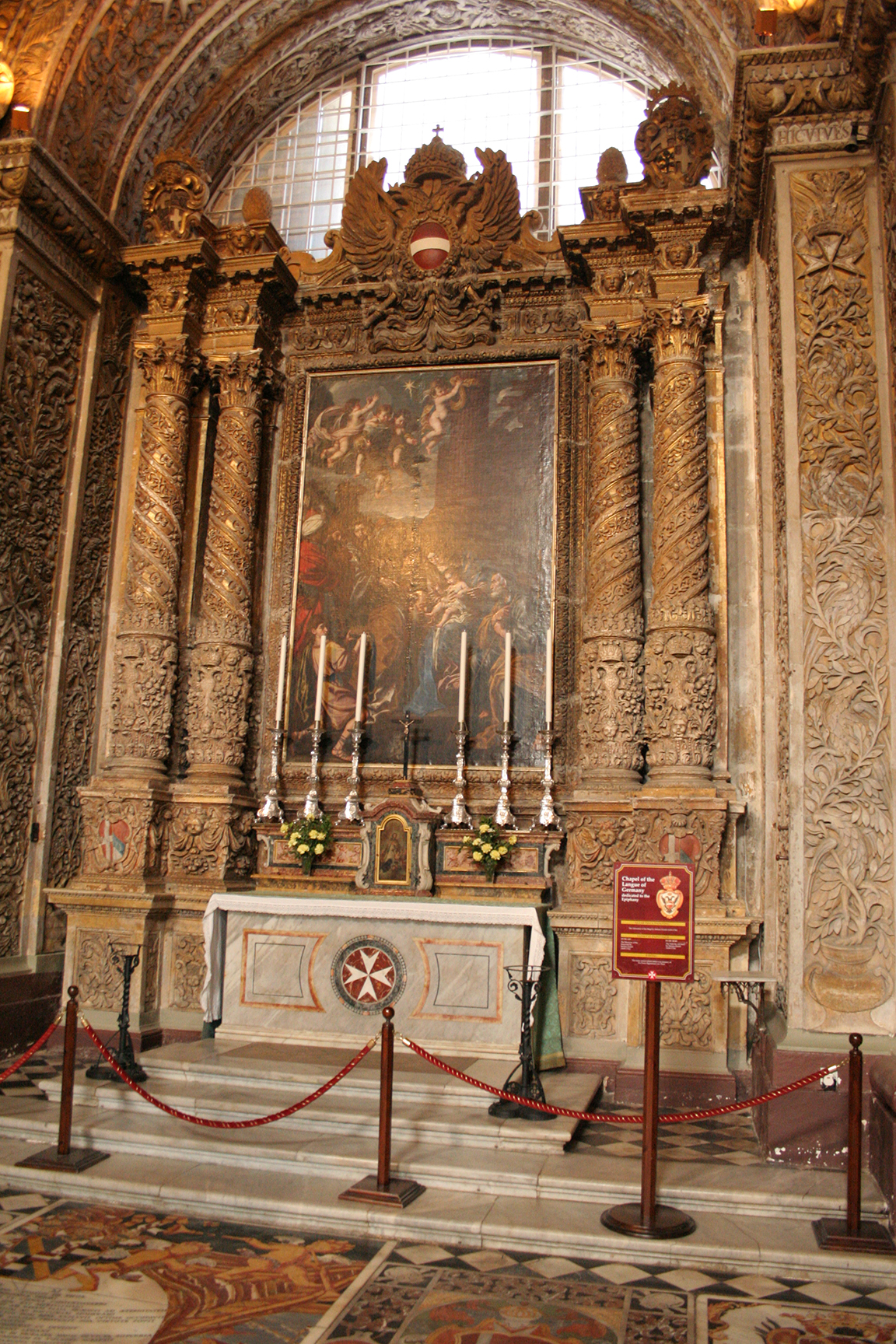 Malta, Valletta, St. John's Co-Cathedral, Chapel of the Langue of Germany, altar dedicated to the Epiphany